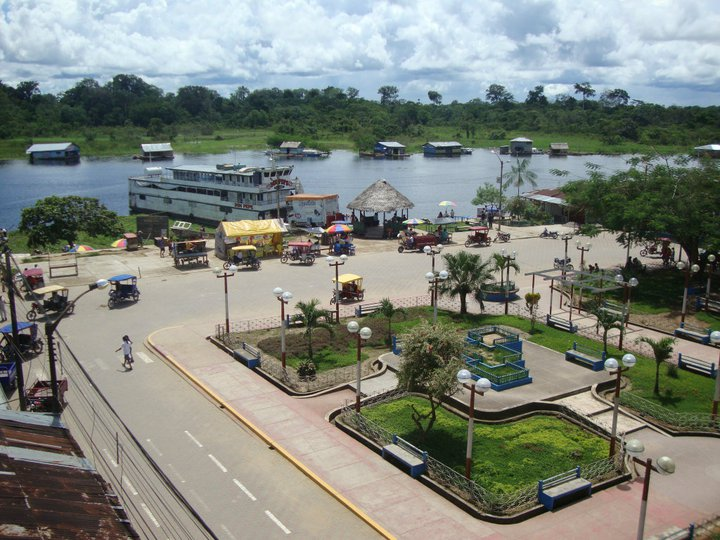 caballo cocha town